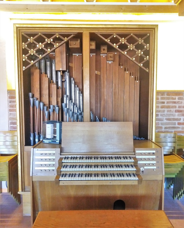 Orgelzentrum Valley